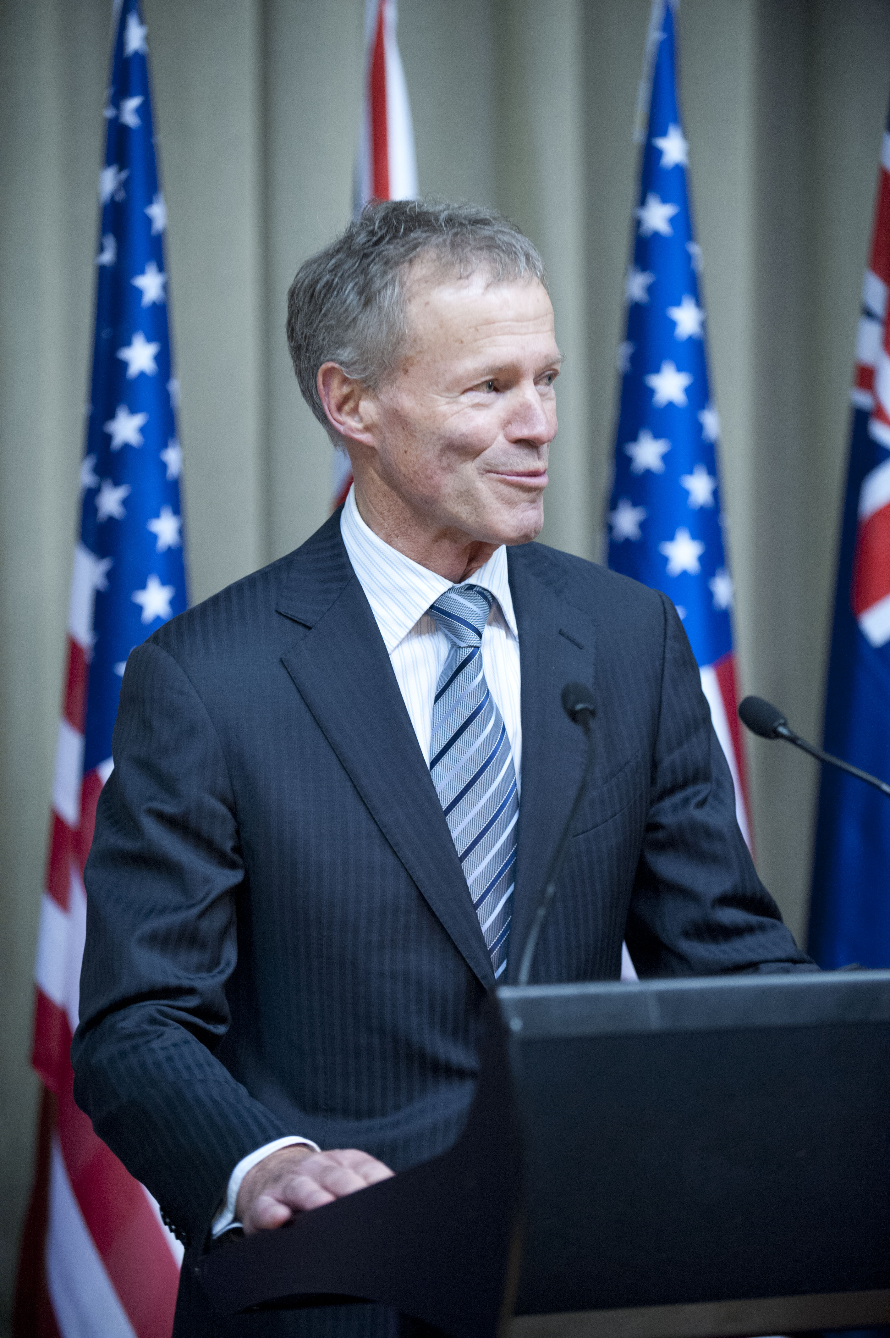 Lockwood Smith speaking at the 70th Anniversary of the arrival of US Forces in New Zealand - Parliament Reception. 2012 marks the 70th anniversary of the arrival of American forces in New Zealand during WWII. With so few veterans left the Embassy has decided this is an important anniversary to commemorate and will be marking it with a series of events during May and June this year. This will include Memorial Day events, a visiting Marine Corps historian, official NZ Government commemorations and the visit of a Marine Corps band.